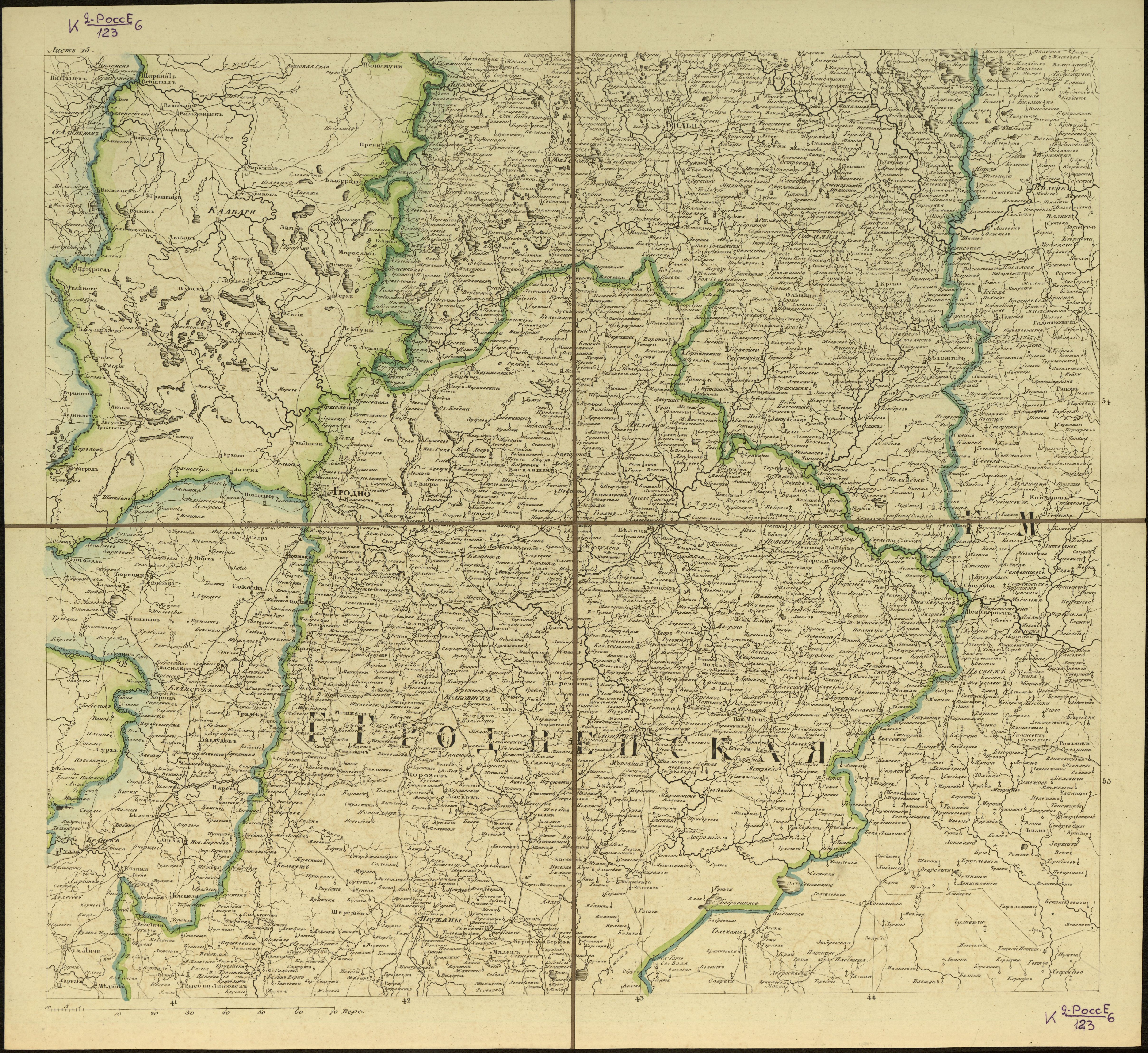 Sheet number 15 of 100-sheets Map of the Russian Empire of 1804 (used by both Russians and French in the 1812 Patrioric War). Grodno Province.